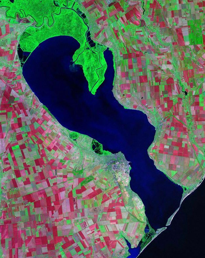 Landsat satellite photo of Dniester Liman formed at the point where the river Dniester flows into the Black Sea, Ukraine.